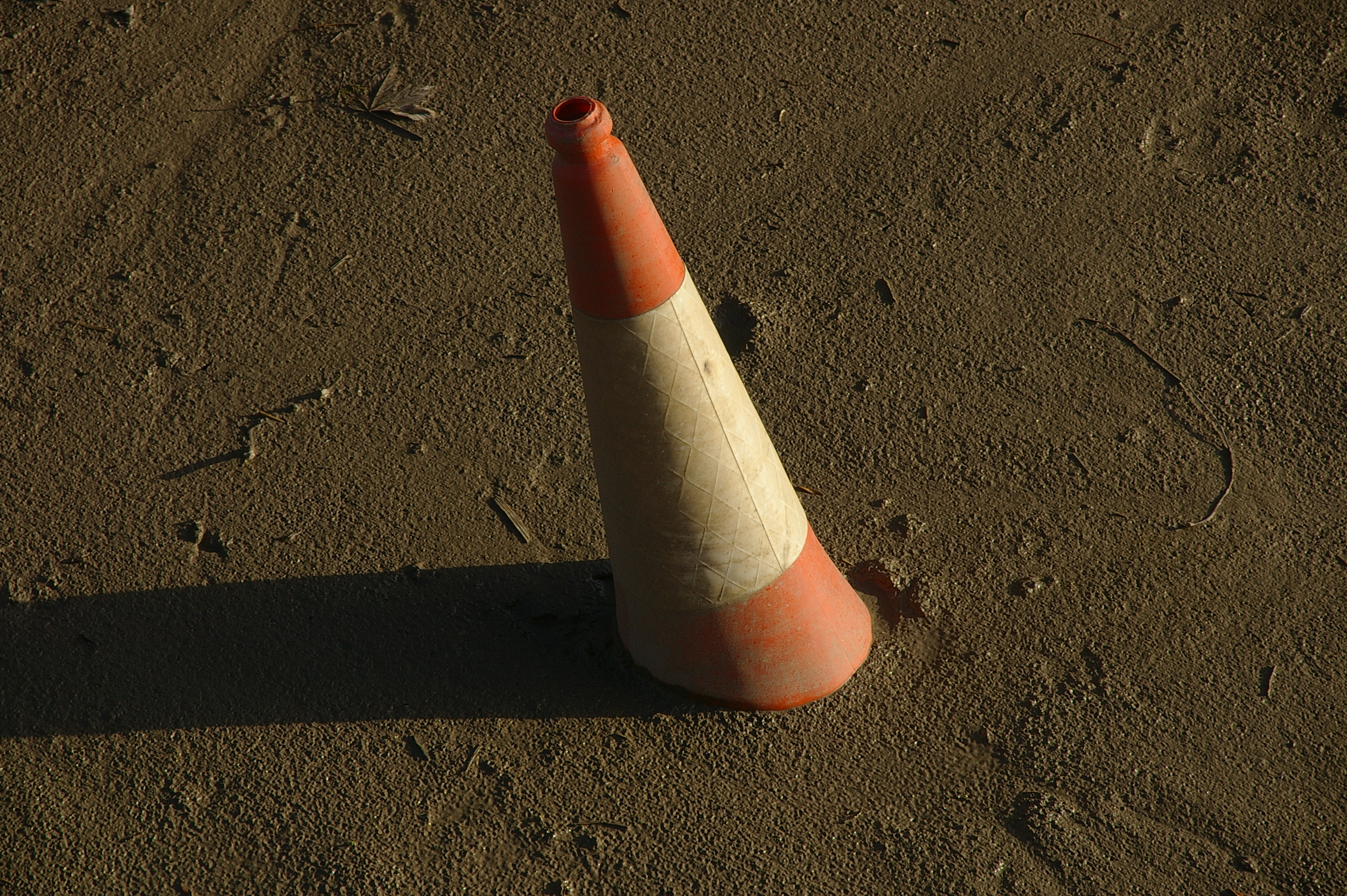 A traffic cone stuck in the mud of the old entrance to Bathurst Basin from the River Avon in Bristol.